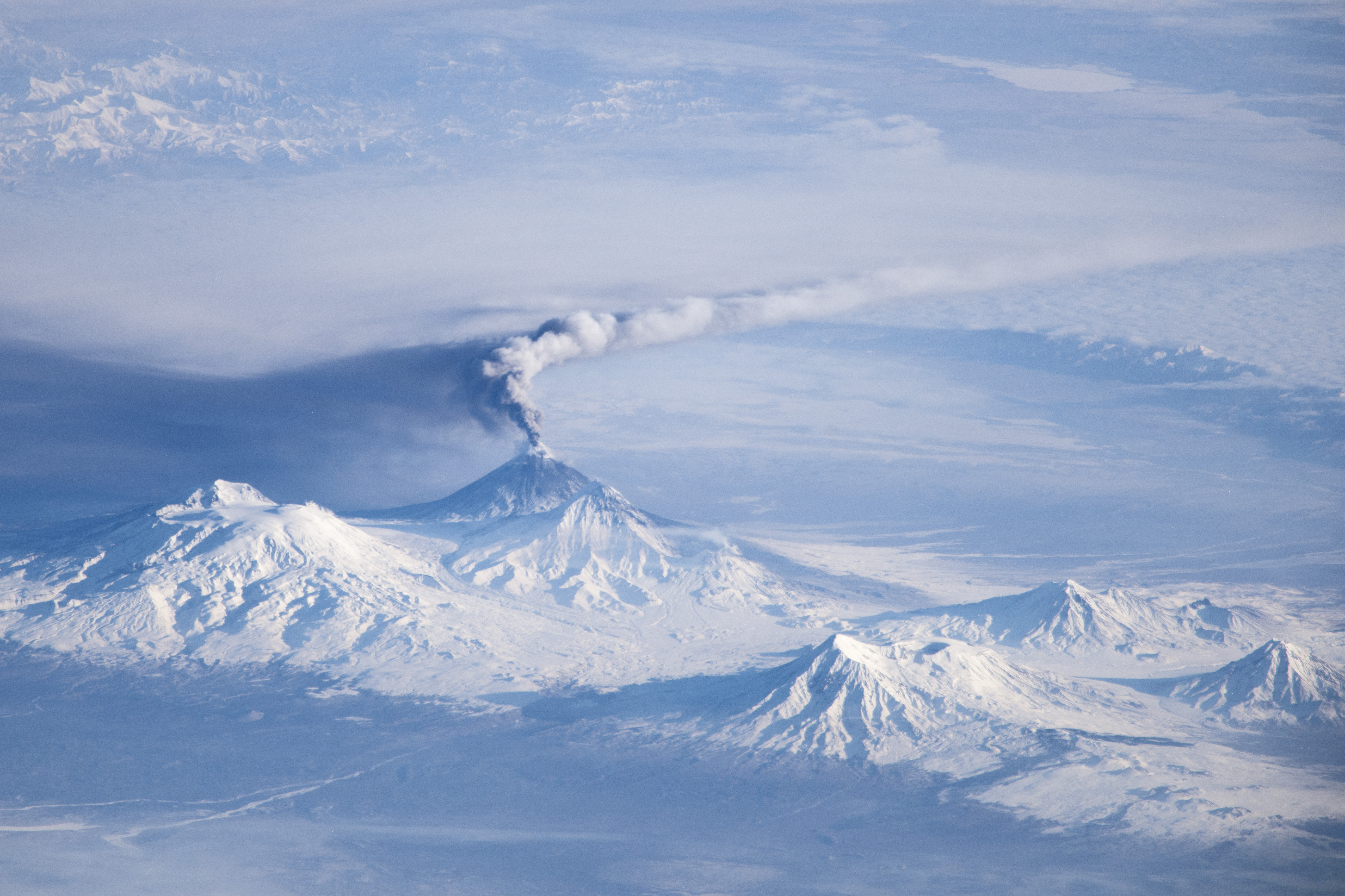 This photograph provides a view of an eruption plume emanating from Kliuchevskoi, one of the many active volcanoes on the Kamchatka Peninsula. The image was taken when the ISS was located over a ground position more than 1,500 kilometers (900 miles) to the southwest. The plume—likely a combination of steam, volcanic gases, and ash—stretched to the east-southeast due to prevailing winds. The dark region to the north-northwest is likely a product of shadows and of ash settling out. Several other volcanoes are visible in the image, including Ushkovsky, Tolbachik, Zimina, and Udina. To the south-southwest of Kliuchevskoi lies Bezymianny Volcano, which appears to be emitting a small steam plume (at image center). (Move the mouse pointer over the image to see annotations). See the source for the annotated version.